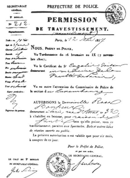 Police autorisation allowing Rosa Bonheur to dress as a man (1857).